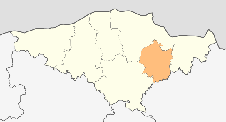 Map of Alfatar municipality, Silistra Province